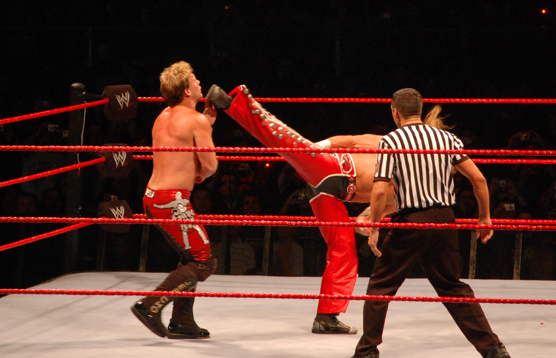 Shawn Michaels performing Sweet Chin Music on Chris Jericho in July 2008